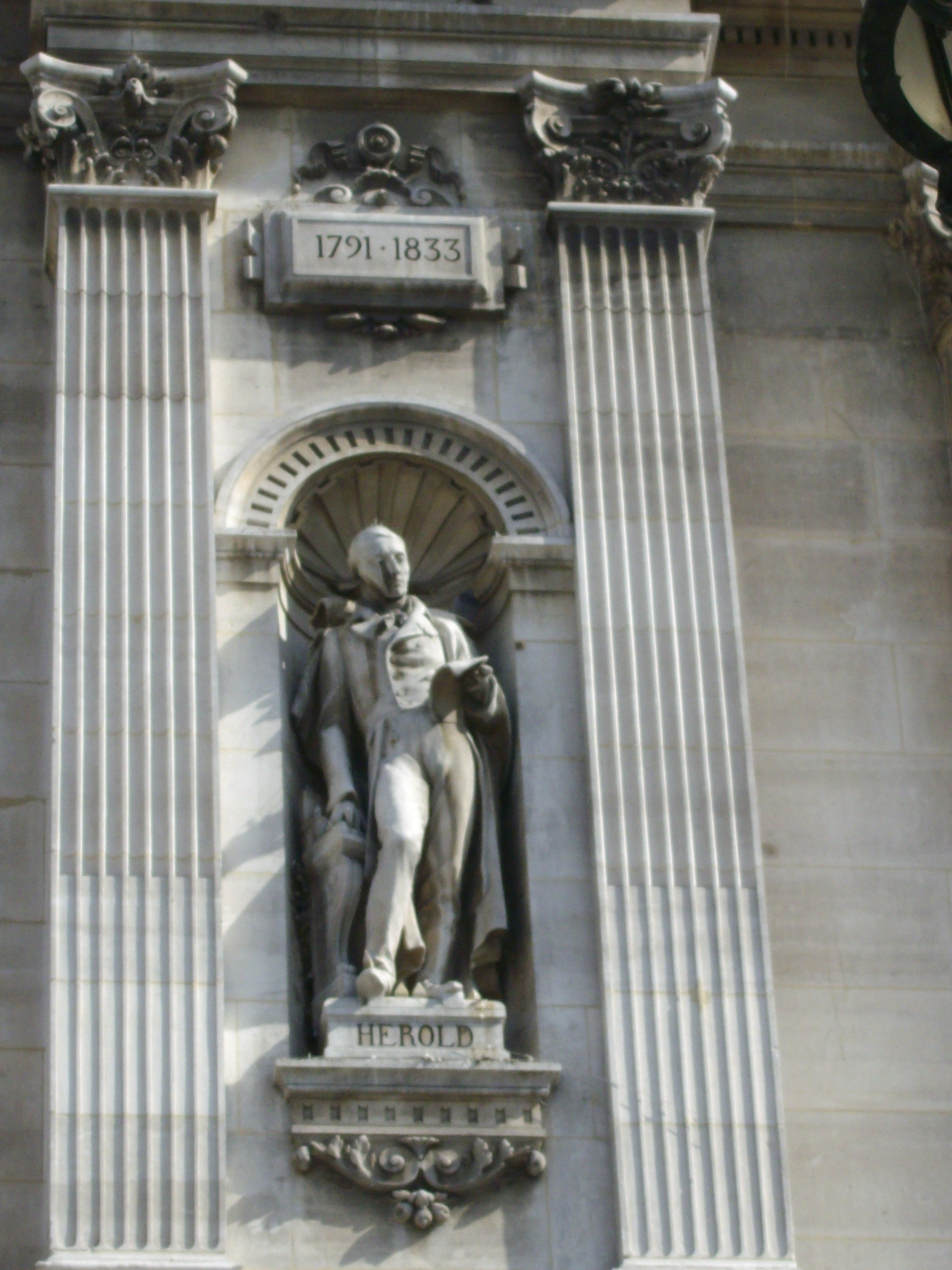 Statues of the City Hall in Paris, France